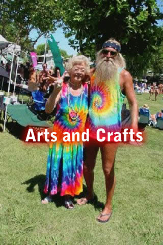 A interesting image of the arts and crafts moviment.